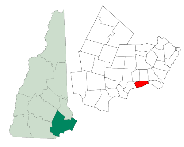 Map of a municipality in Rockingham County, New Hampshire